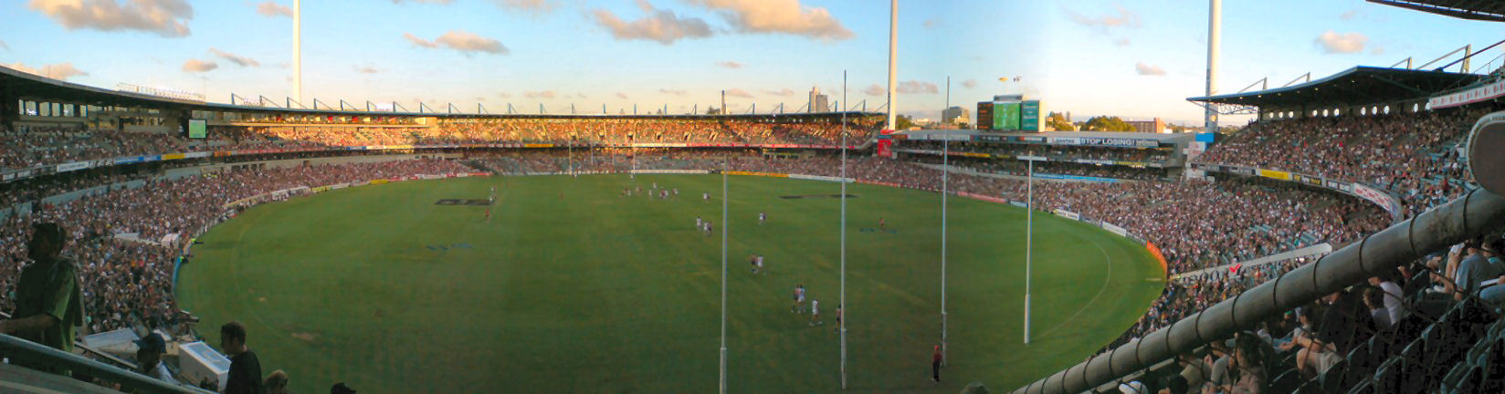 Panorama of the Subiaco Oval during the 1st NAB Cup game in Perth for 2008 on Sunday 17th Feb.